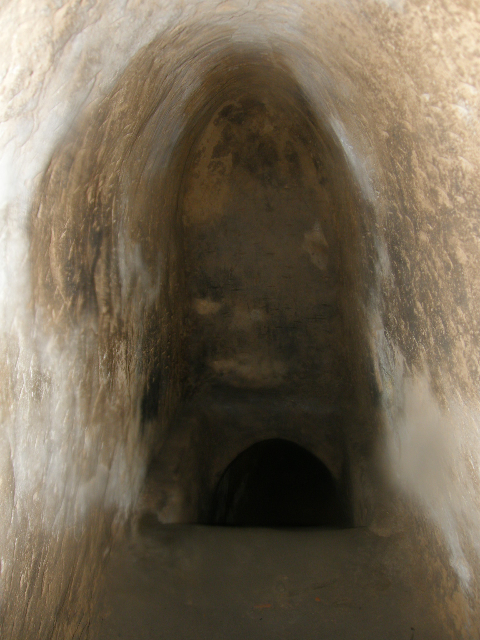 Củ Chi tunnels